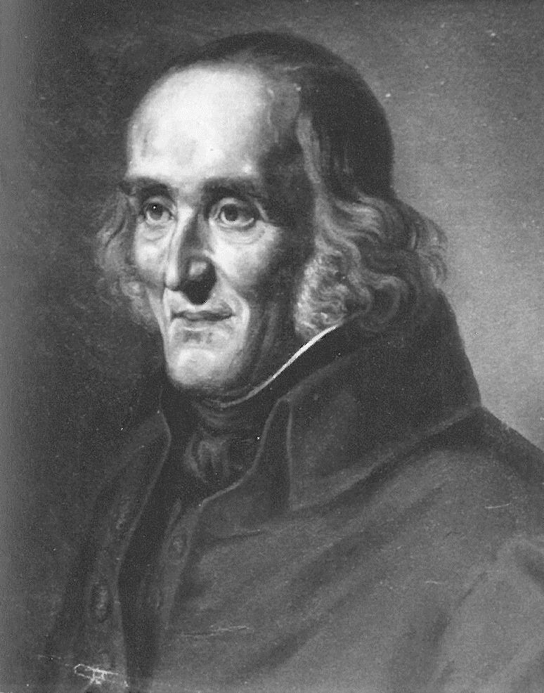 Johann Baptist von Hirscher, painted by his protégé Sebastian Luz for his 70th birthday on 22 January 1858